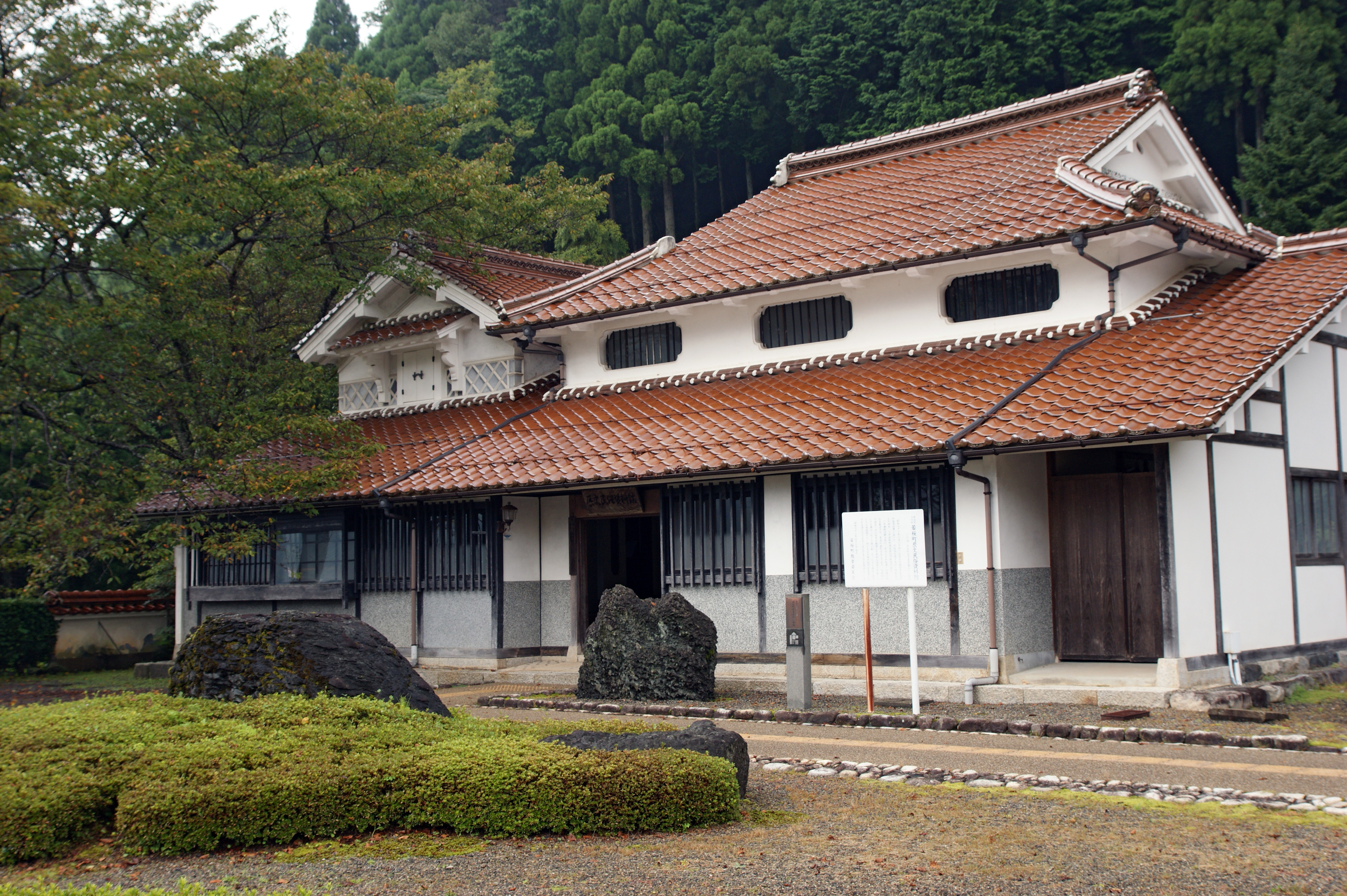 Wakasa kyodobunka-no-sato in Wakasa, Tottori prefecture, Japan